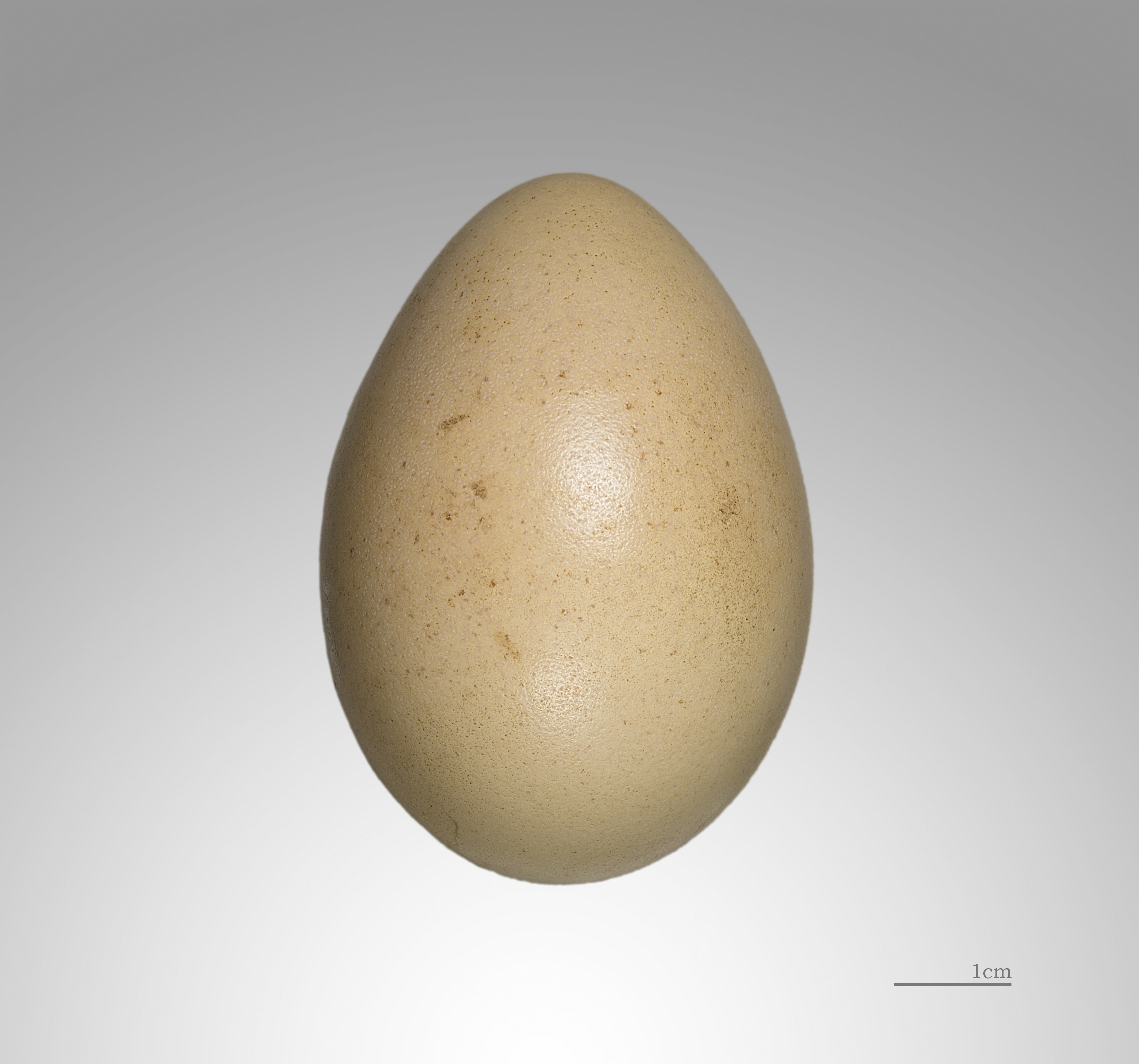 Egg of Silver Pheasant - Collection of Jacques Perrin de Brichambaut